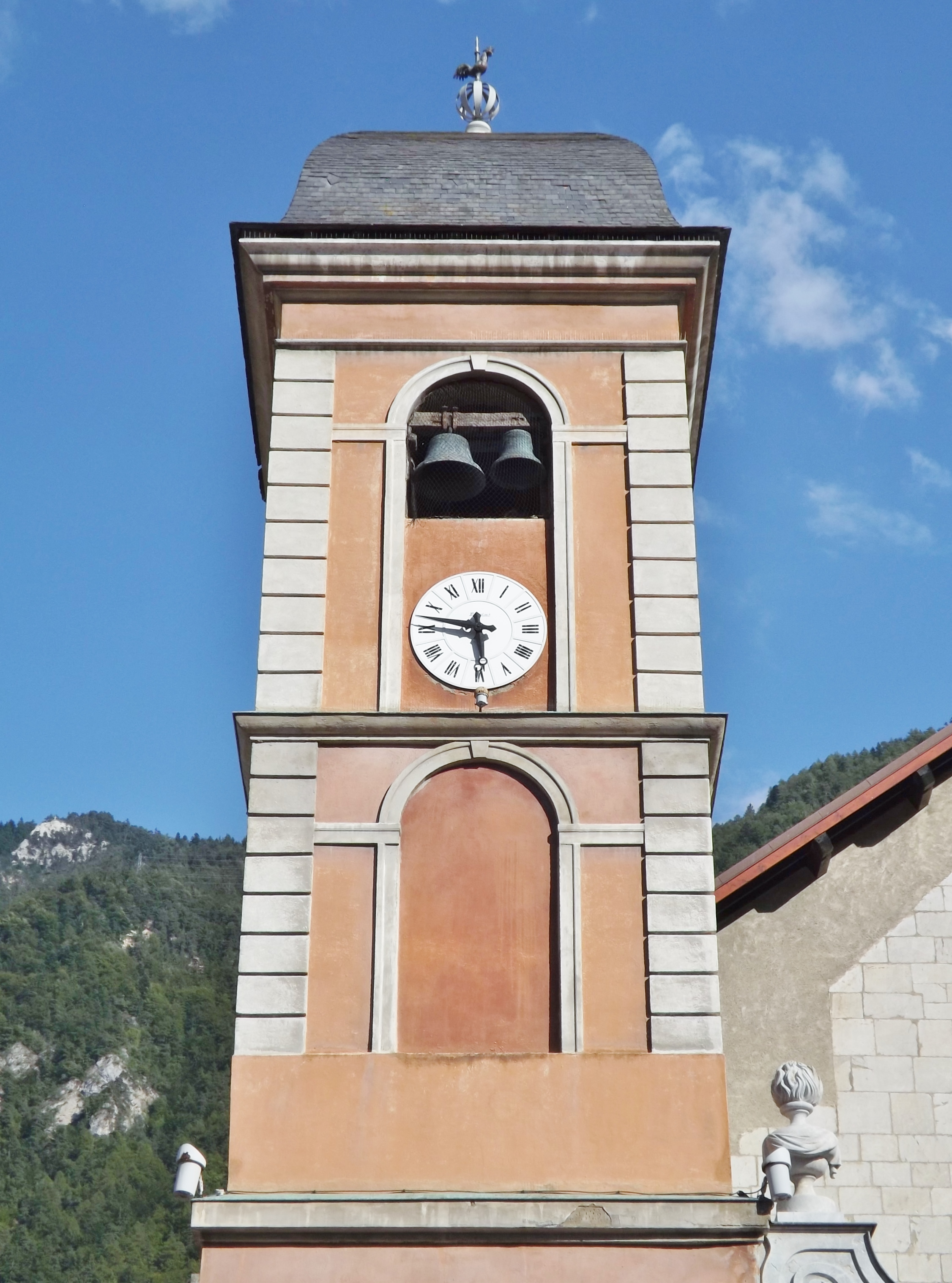 Sight of Moûtiers cathedral bell tower, in Savoie, France.